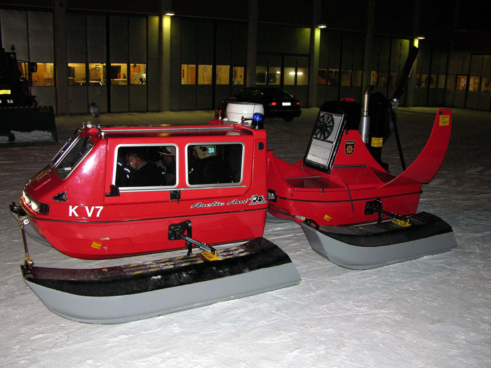 Hydrocopter Kuopio Vene 7 (K V7). The unit code K V7 means: K = town where the unit is located, Kuopio; V = unit type, boat (in Finnish: vene); and 7 = unit number. This hydrocopter is used for rescue purposes on lakes near town Kuopio in Finland. It can carry a crew of 1+3 persons or a total load of 500 kilograms. When a stretcher is taken to the cabin, there is space for two crew members. Its empty weight is approx. 1300 kg, its turning radius approx. 15 meters. Its is powered by a 240 horsepower turbodiesel engine.